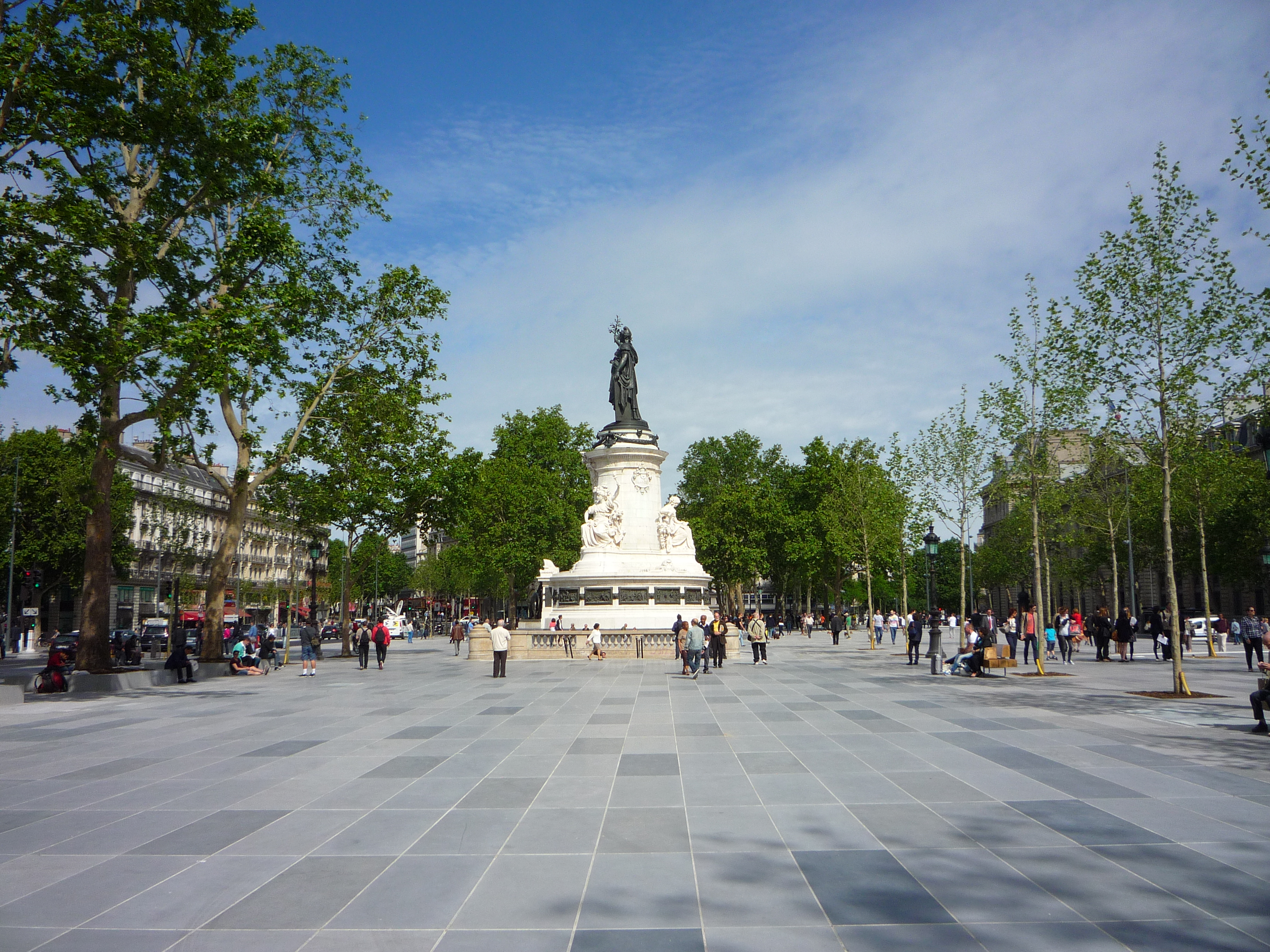 Inauguration of Place de la République in Paris, June 2013.